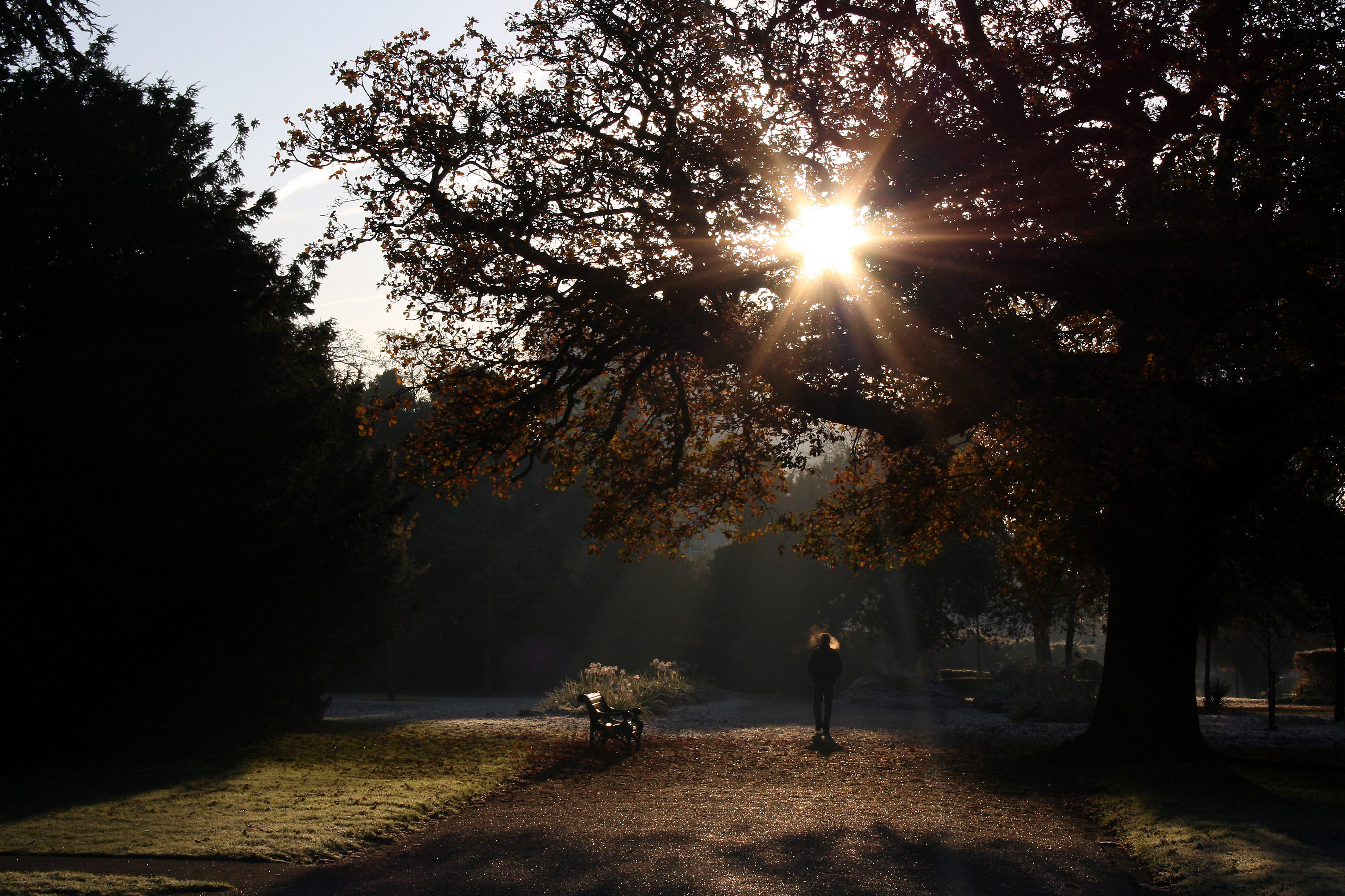 Boston Manor Park - Friday November 16th 2007.